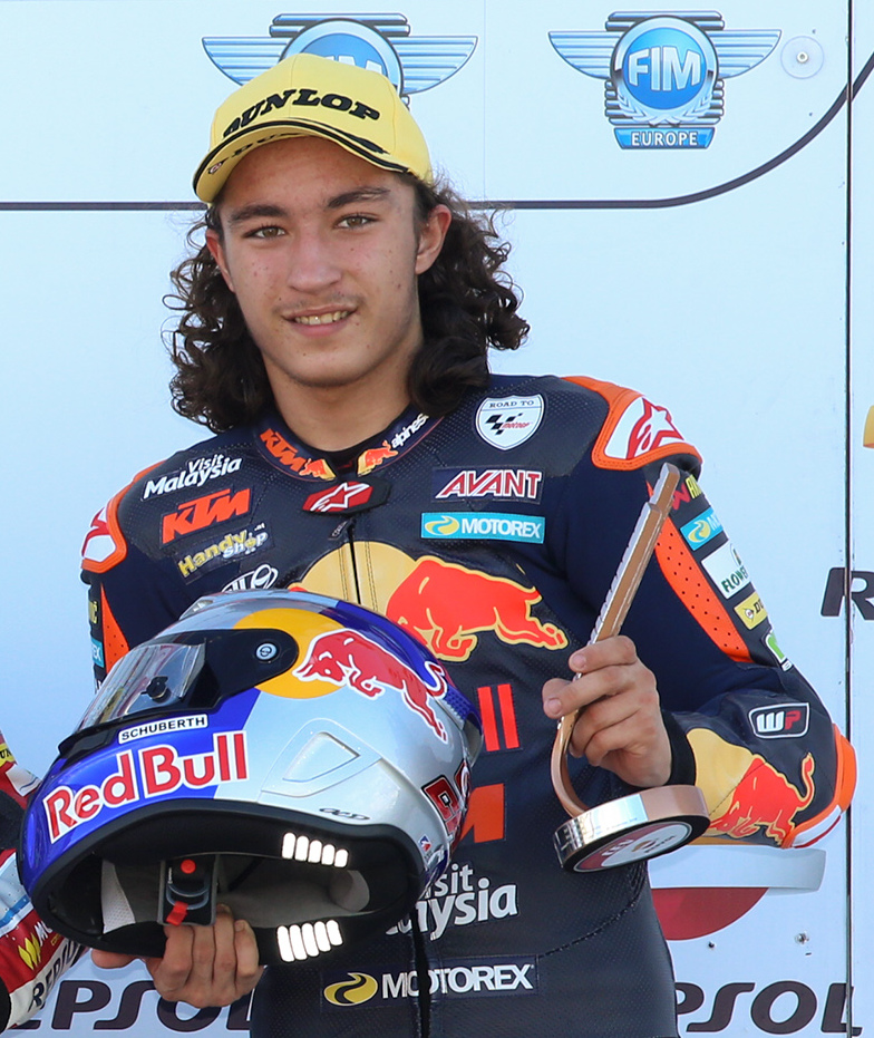 Can Öncü on the podium of the 2018 CEV Moto3 Valencia II race 2.